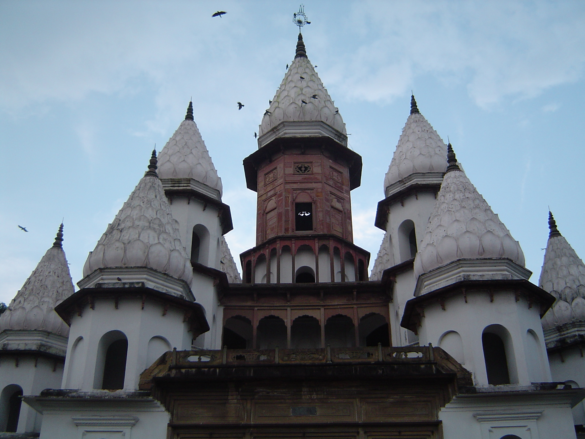 Hangeshari Temple, at Banshberia, Hooghly, West Bengal, India